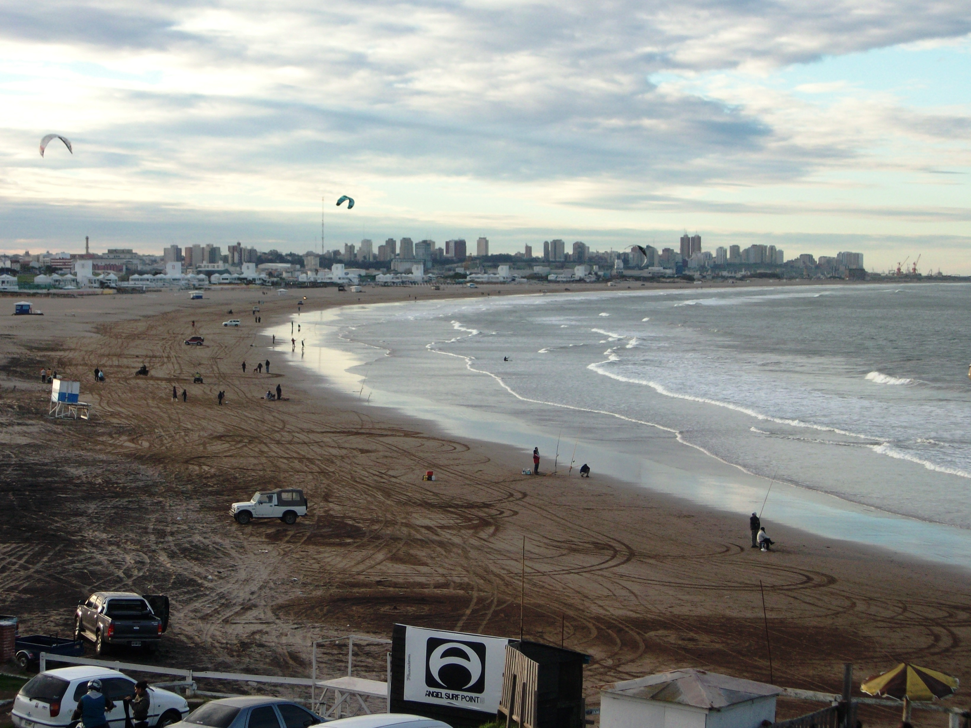 Punta Mogotes beach, late fall 2012